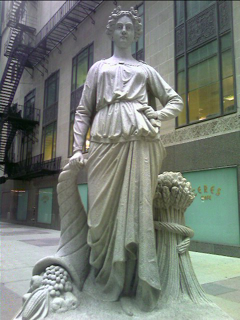 Granite statue of Agriculture (1930), outside the Chicago Board of Trade building